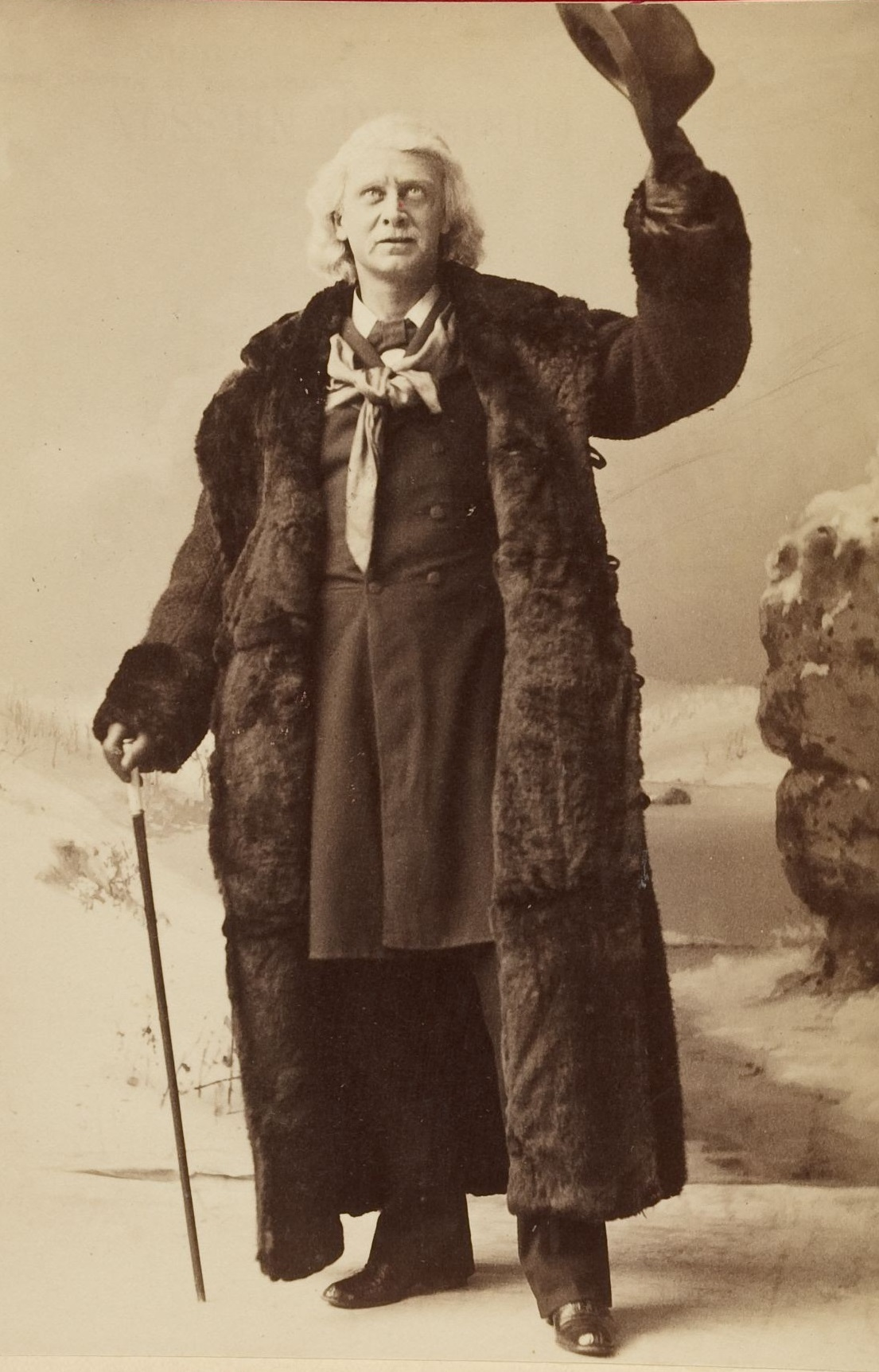 Cabinet card image of Scottish actor Walter Bentley (1849-1927), in costume. Cropped version. TCS 1.2342, Harvard Theatre Collection, Harvard University